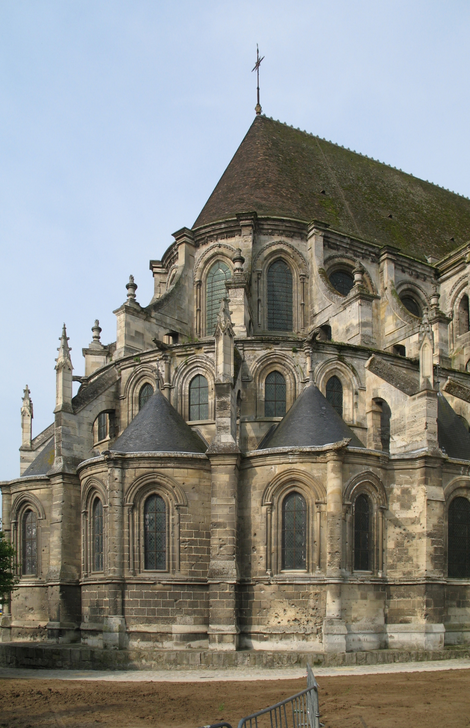 Noyon (département de l'Oise, France): chevet of the Notre-Dame Cathedral